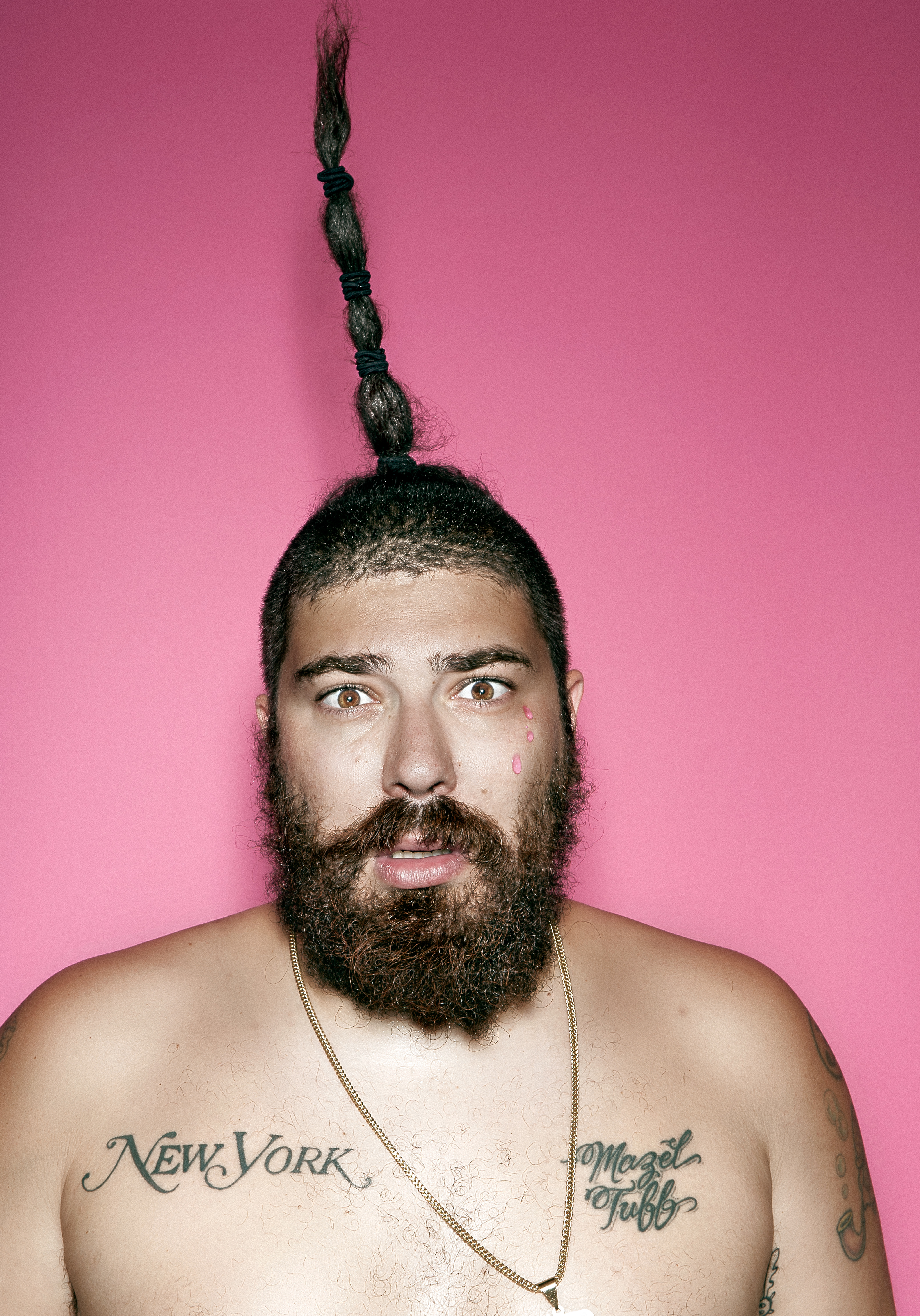 This image was taken by photographer Guerin Blask.